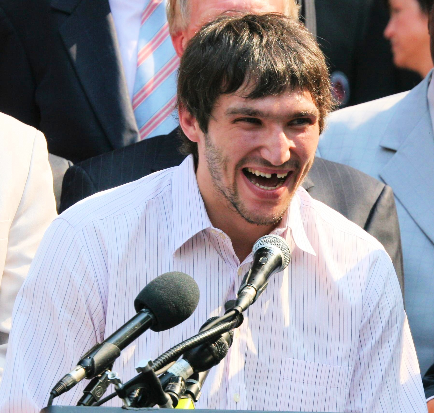 Alex Ovechkin addresses the crowd in front of the Wilson Building in Washington DC after receiving the key to the city in honor of his winning the NHL's Hart Memorial Trophy as league MVP for the 2007–2008 season. He has just said, "Everybody have fun. No speed limit today."